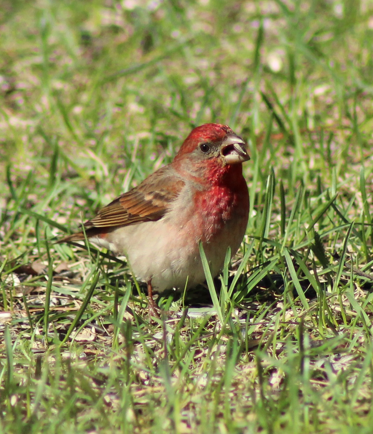 A Common Rosefinch (Carpodacus erythrinus) in Haukipudas, Finland.